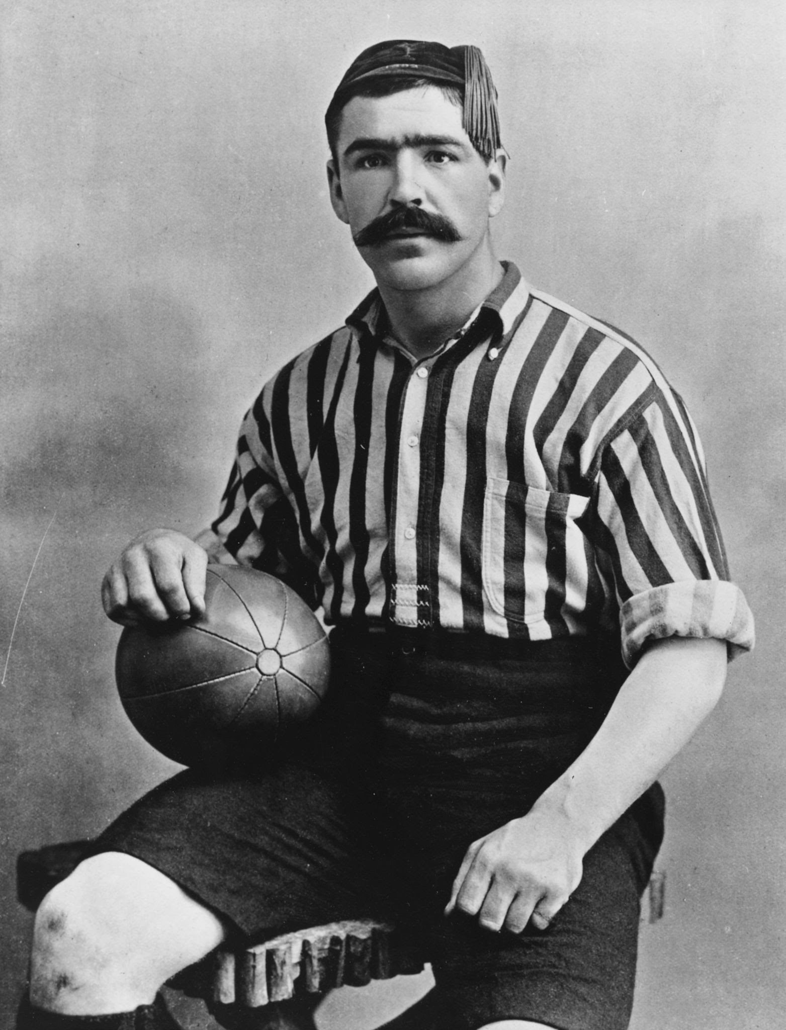 Photograph of Wales international association football (soccer) player Caesar Jenkyns wearing the 1895–96 season Arsenal F.C. shirt.